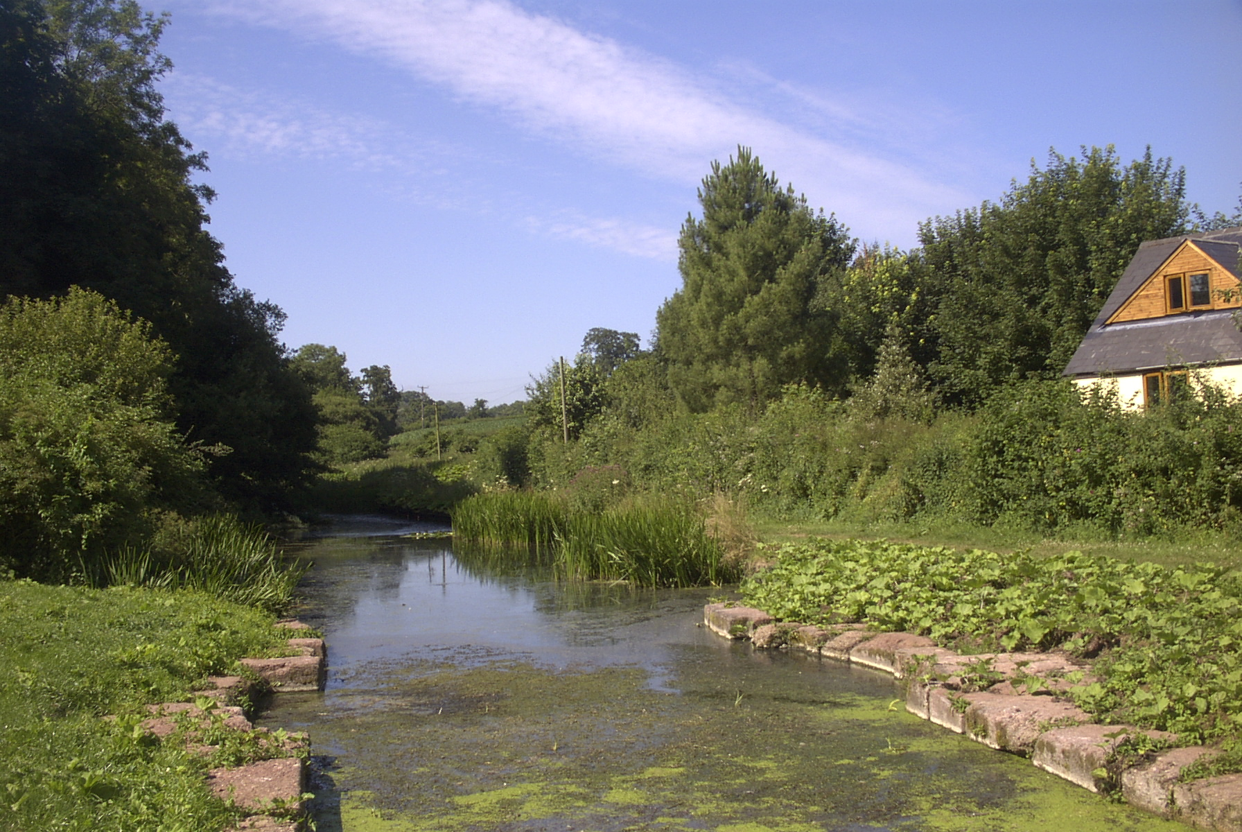 taken from the current head of navigation at Lowdwells Lock.